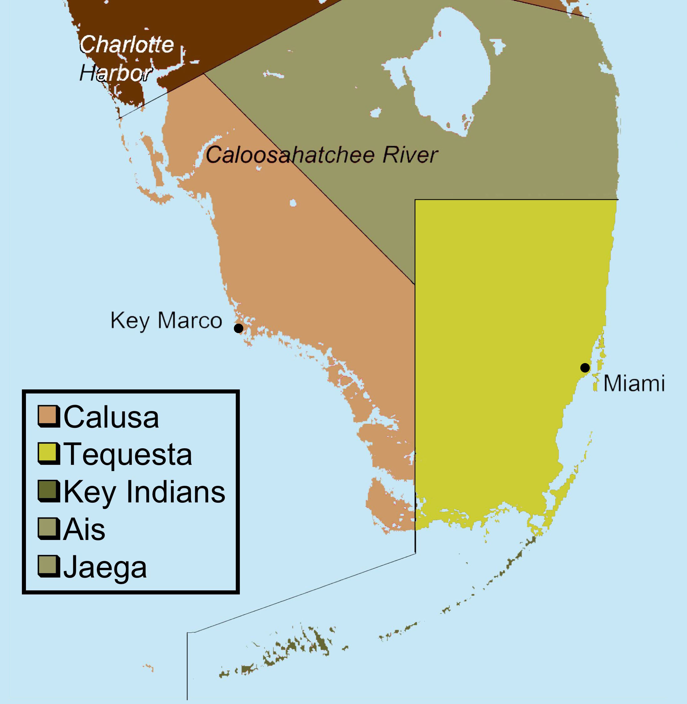 This map shows the territories of Historic period tribes that lived in and around the Everglades region from 1513 to 1743. The map was created using data from: Griffin, John (2002). Archeology of the Everglades. University Press of Florida. ISBN 0813025583 p. 163.